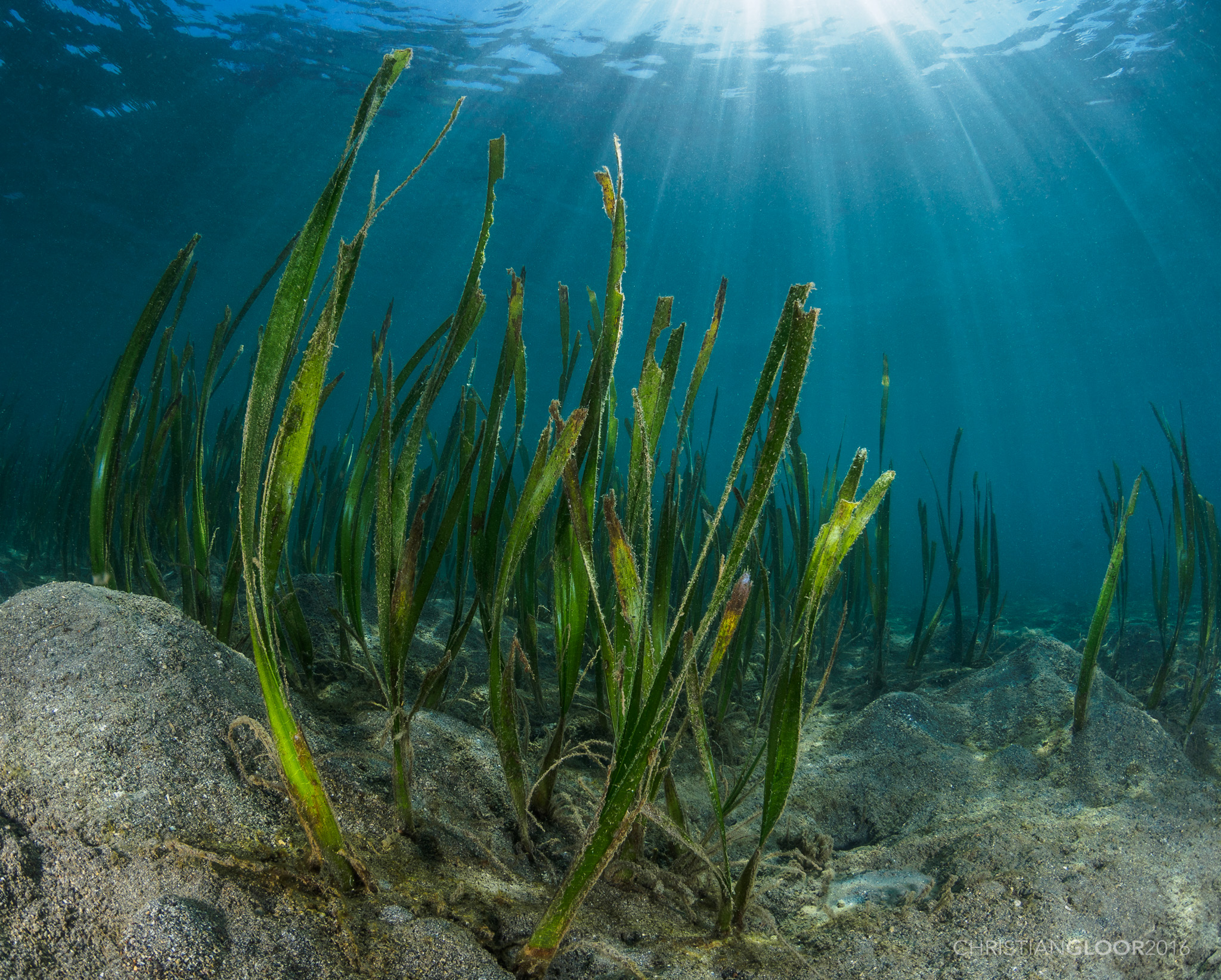 Sea grass field (Enhalus acoroides) in very shallow water.